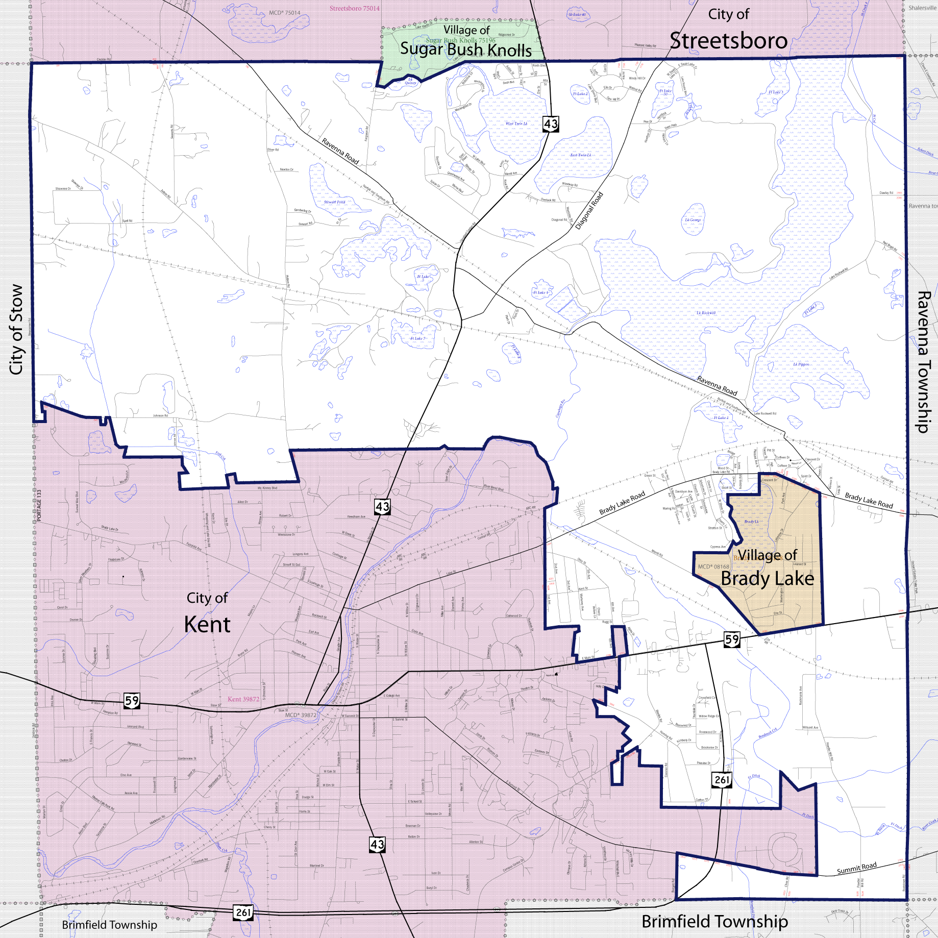 Map of Franklin Township in Portage County, Ohio, showing boundaries and roads with main roads highlighted. Base map from the U.S. Census Bureau's 2009 Boundary and Annexation Survey